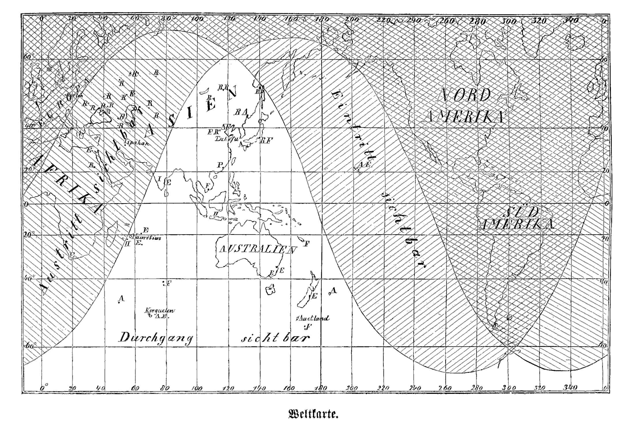 Image from page 695 of book Die Gartenlaube, 1874.